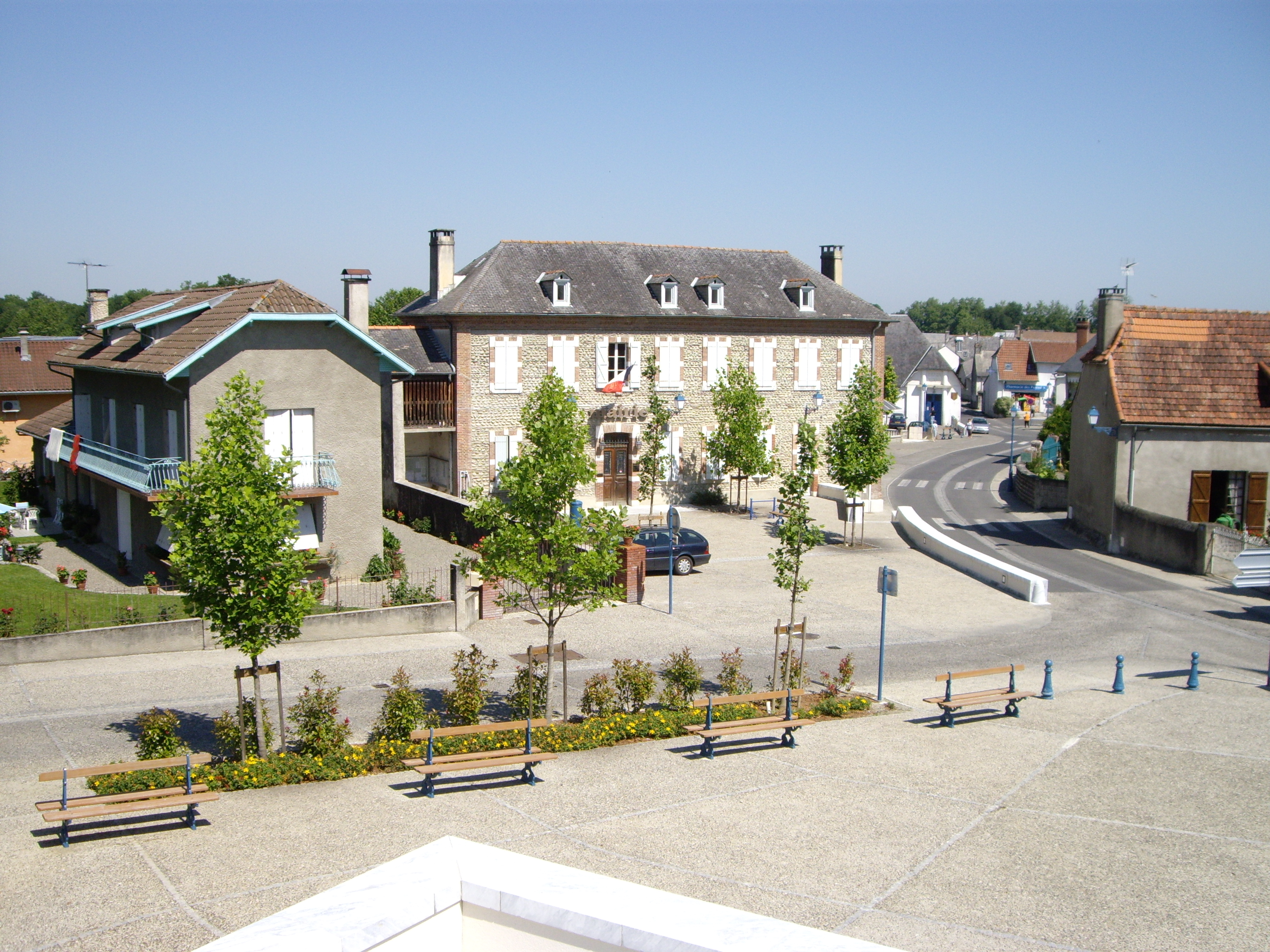 Odos town hall, Hautes-Pyrénées, France